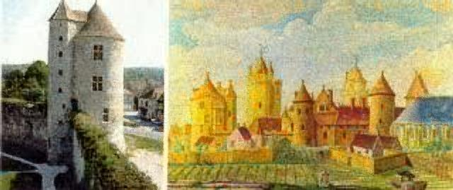 Postcard from the 1920s describing as showing Melun, France about 1095 and in the 1920s Shows 2 water color paintings. In fact, left one is from Blandy-Les-Tours (~10 km from Melun) badly horitontally compressed picture dating after 1990s reconstruction (there was no roof on the castle during XXth century). The one at the right unidentified could be a tempera (not watercolour, didn't exists in 1095), looks a little like Blandy-les-Tours and it's church. Melun castle was not at middle of fields, but at middle of Seine River on a little isle)